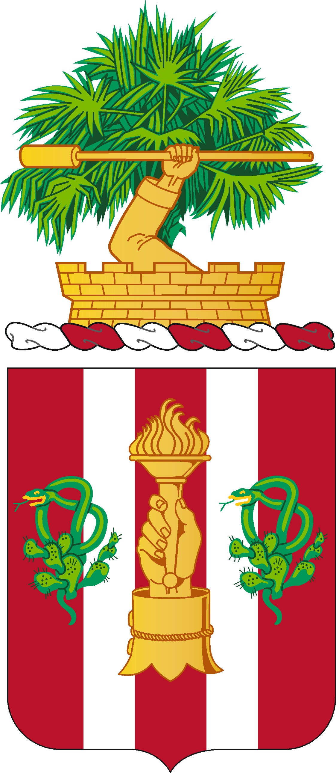 first Coast Artillery coat of arms